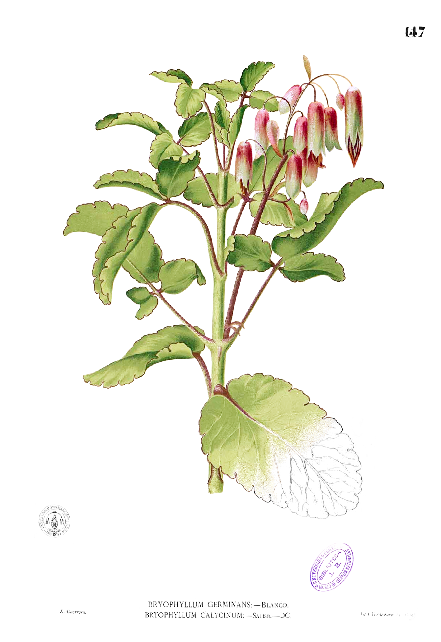 Plate from book Kalanchoe pinnata